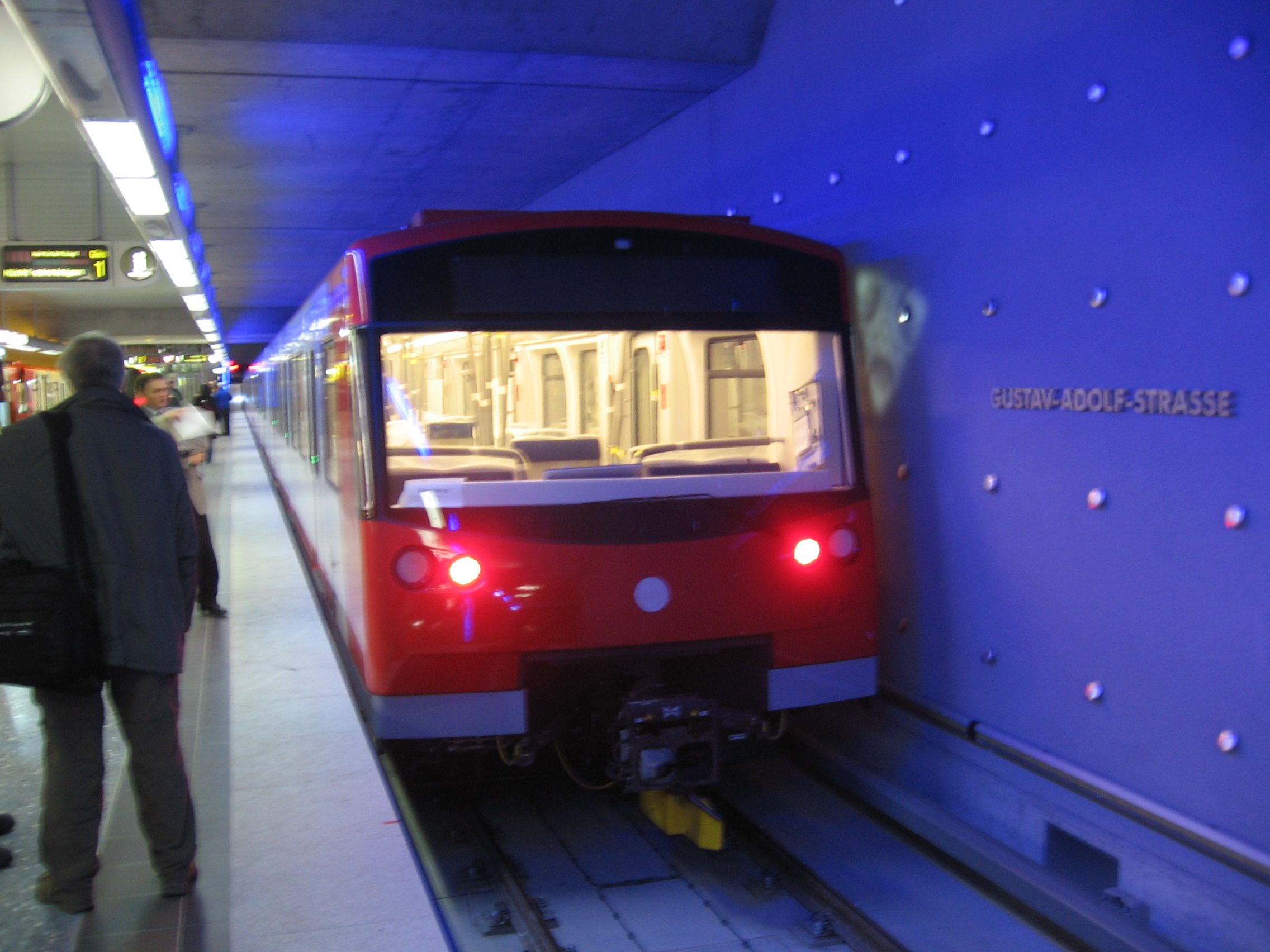 Image of a DT3 of Nuremberg U-Bahn (Nuremberg, Germany) at station Gustav-Adolf-Straße